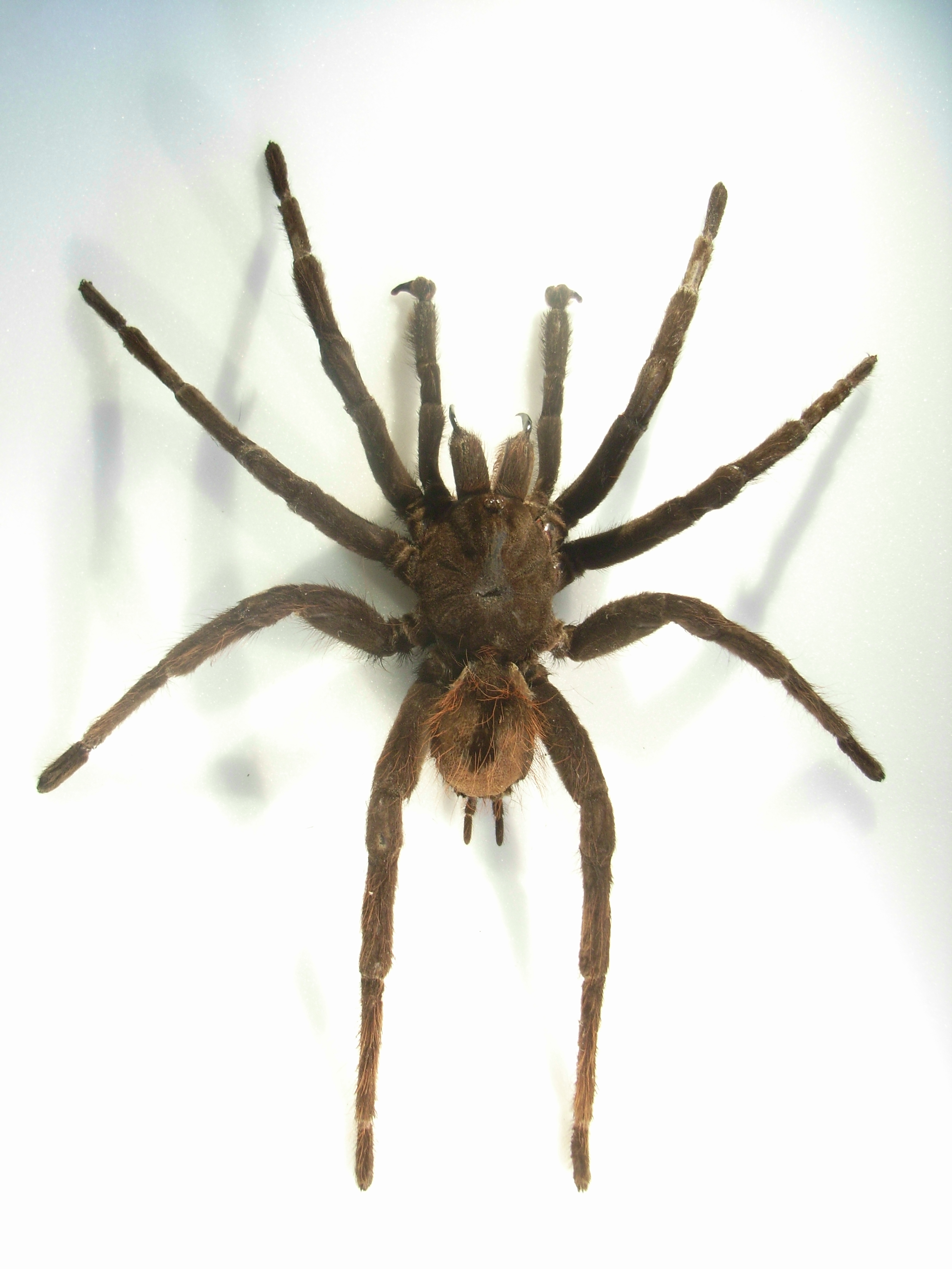 Pamphobeteus antinous Pocock Kolumbien Male Ex coll. Felix Stumpe